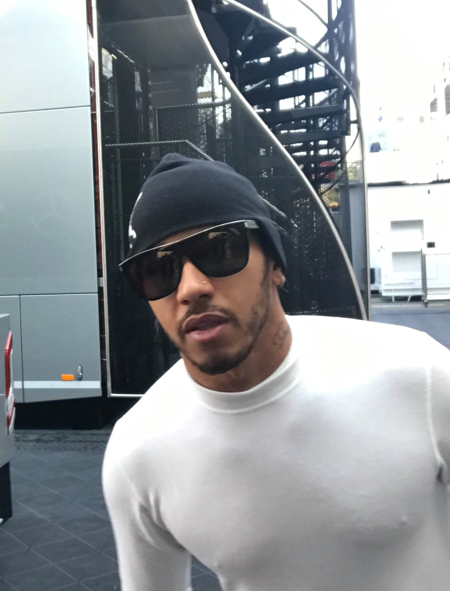 2019 Formula One tests Barcelona, Hamilton.